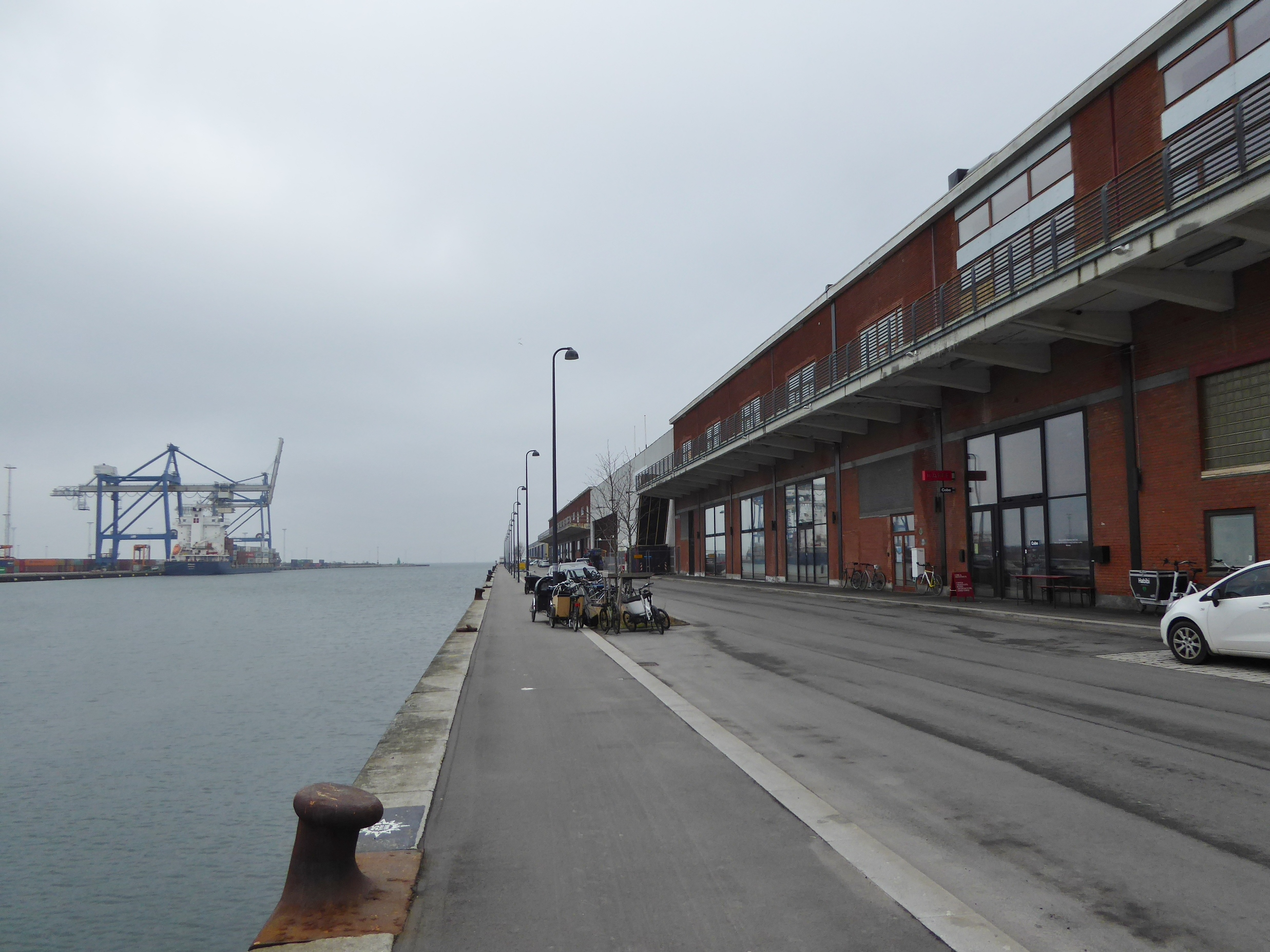 The quay and street Orientkaj in Nordhavn in Copenhagen.